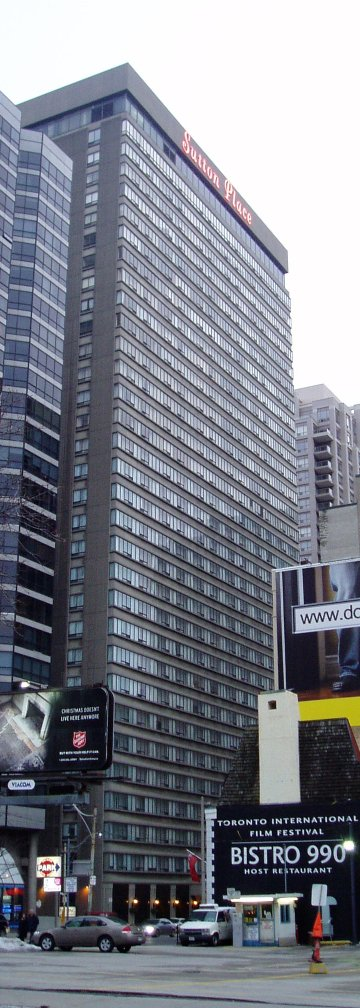 Sutton Place Hotel, Toronto